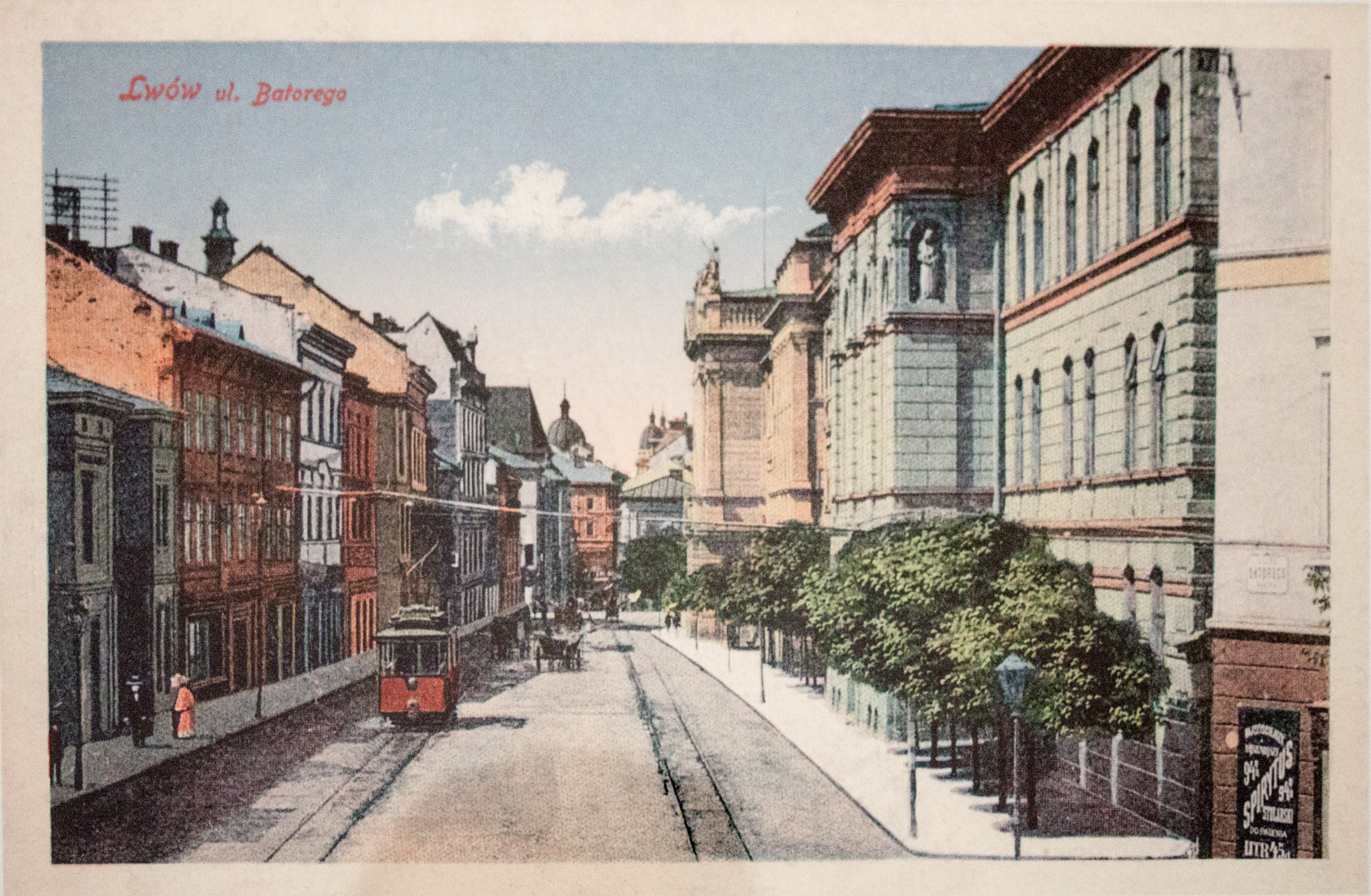 Postcard from Lwów, 1915